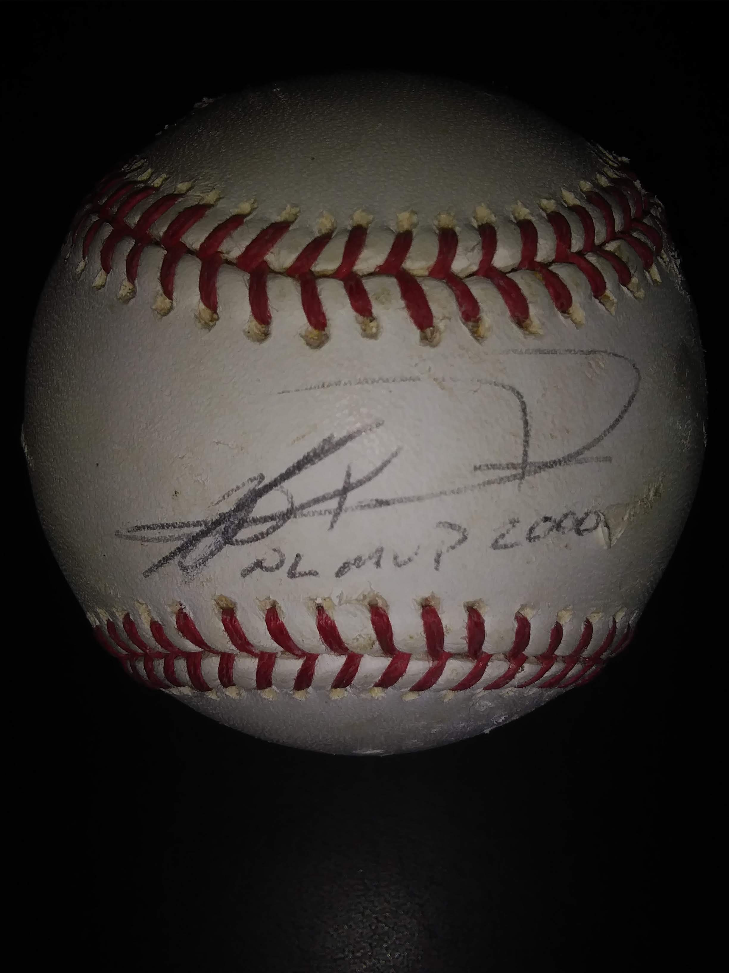 Used in baseball game Jeff Kent MVP 2000 autographed baseball